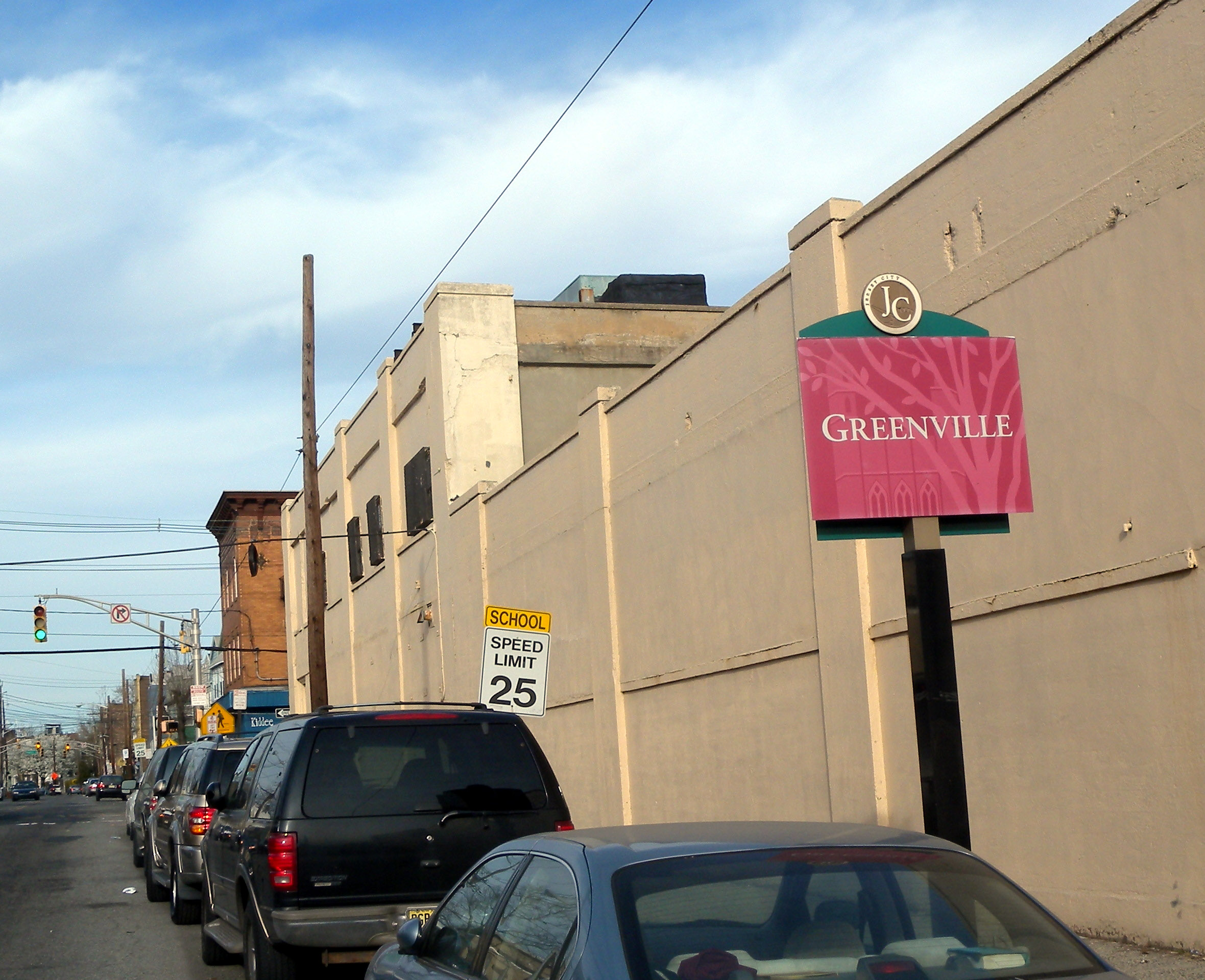 Looking east up Garfield Avenue at Greenville sign at the Bayonne city line, on a mostly sunny afternoon.